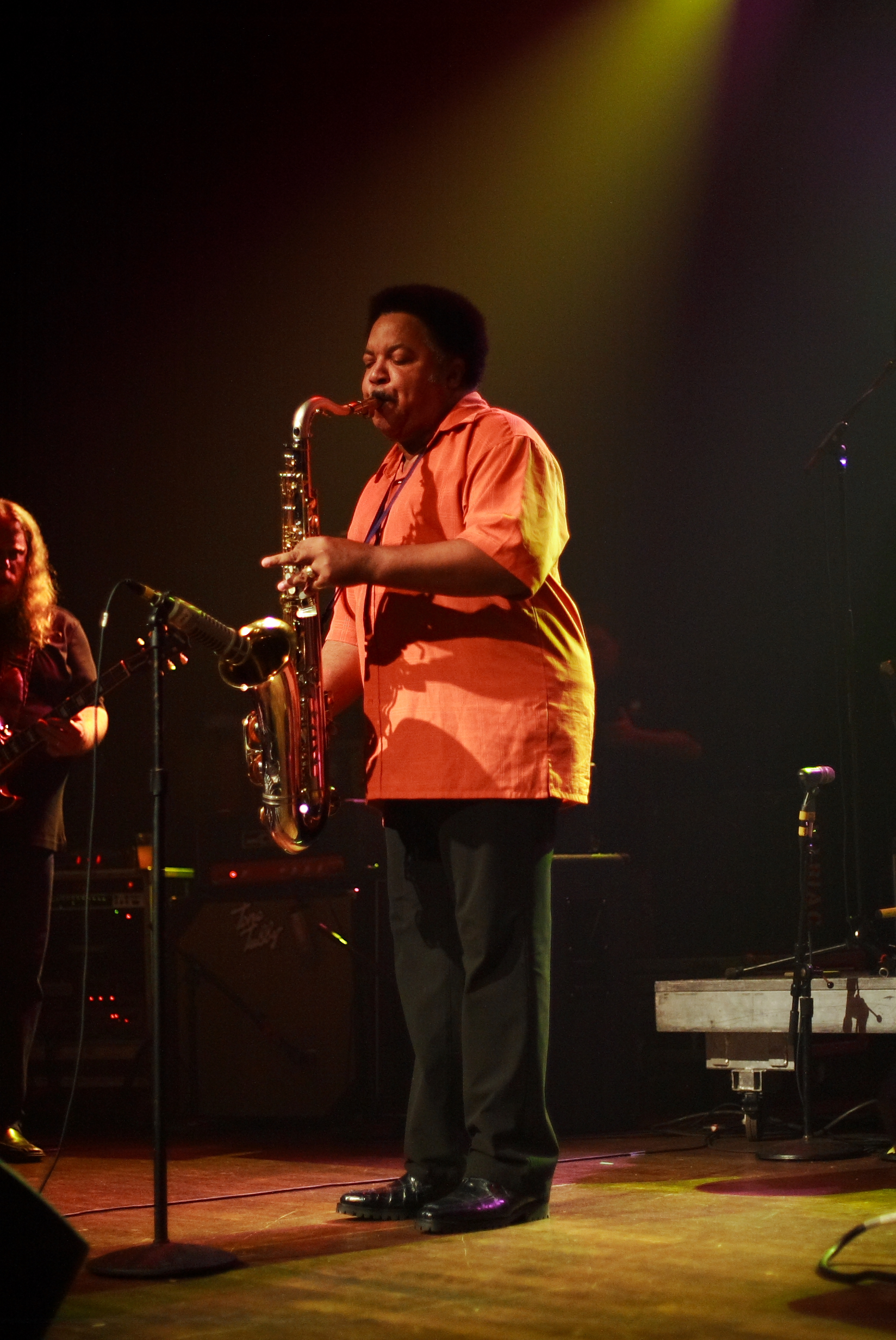 Saxophonist Ron Holloway with Gov't Mule at The Grand in Wilmington, DE.